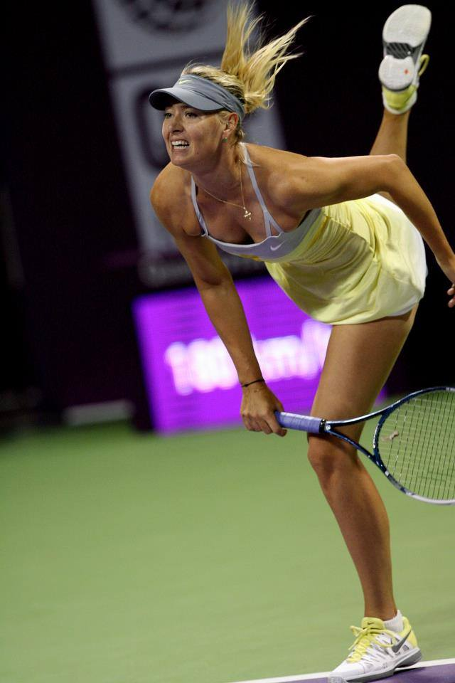 maria Sharapova photos by Hanson